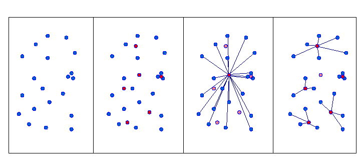 Graph of a facility location problem